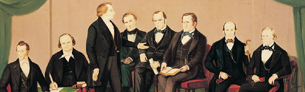 Oil painting of Hyrum Smith, Willard Richards, Joseph Smith, Orson Pratt, Parley Parker Pratt, Orson Hyde, Heber Chase Kimball, and Brigham Young. Cropped photo of painting. Original canvass at LDS Church History Museum, Salt Lake City, Utah, USA